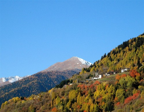 Il paese di Termenago con la Cima Boai e la cima Sforzellina sullo sfondo.